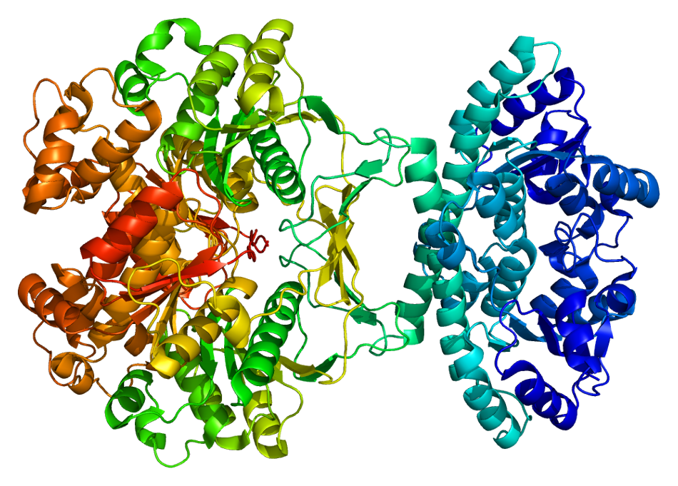 Structure of the ATIC protein. Based on PyMOL rendering of PDB 1p4r.